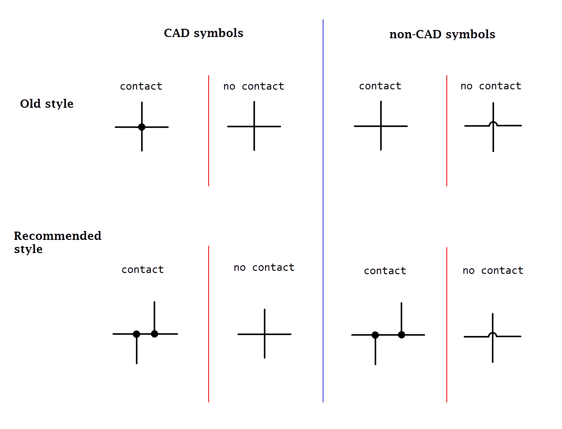 Wire crossover symbols for circuit diagrams, including CAD and non-CAD styles. The original, older styles are contrasted with the newer, recommended styles that leave no room for confusion regarding whether two wires are connected or not connected even if a connecting "dot" is too small to see or accidentally disappears (such as after several passes through a copier). Circuit diagram Other information These diagrams are based on the Wikipedia article "Circuit Diagram" and recommendations from several online sources, including and